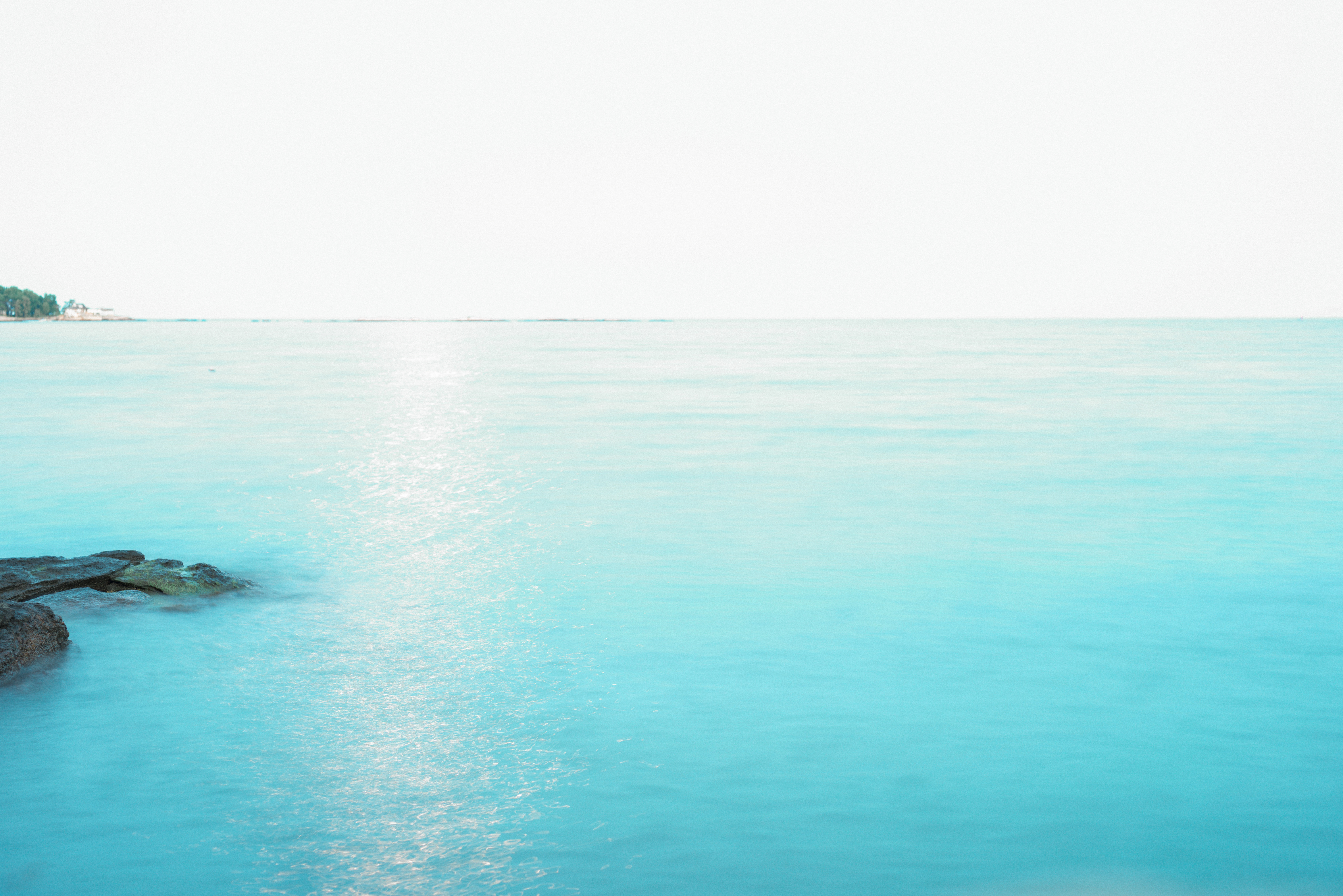 Three second exposure of a beach in Branford, Connecticut, near Shore Drive.